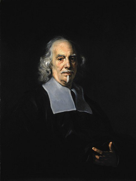 Portrait of Gianlorenzo Bernini (1598-1680)